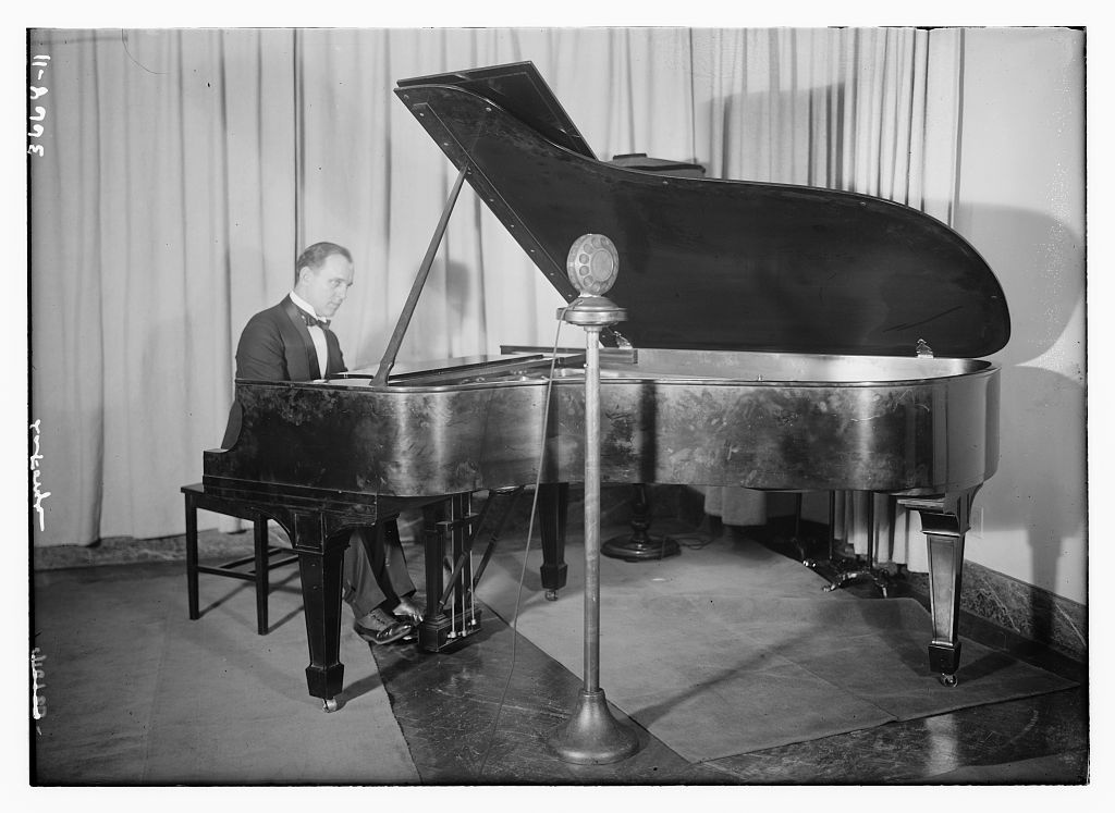 Frank La Forge at a piano in 1915 in a second view